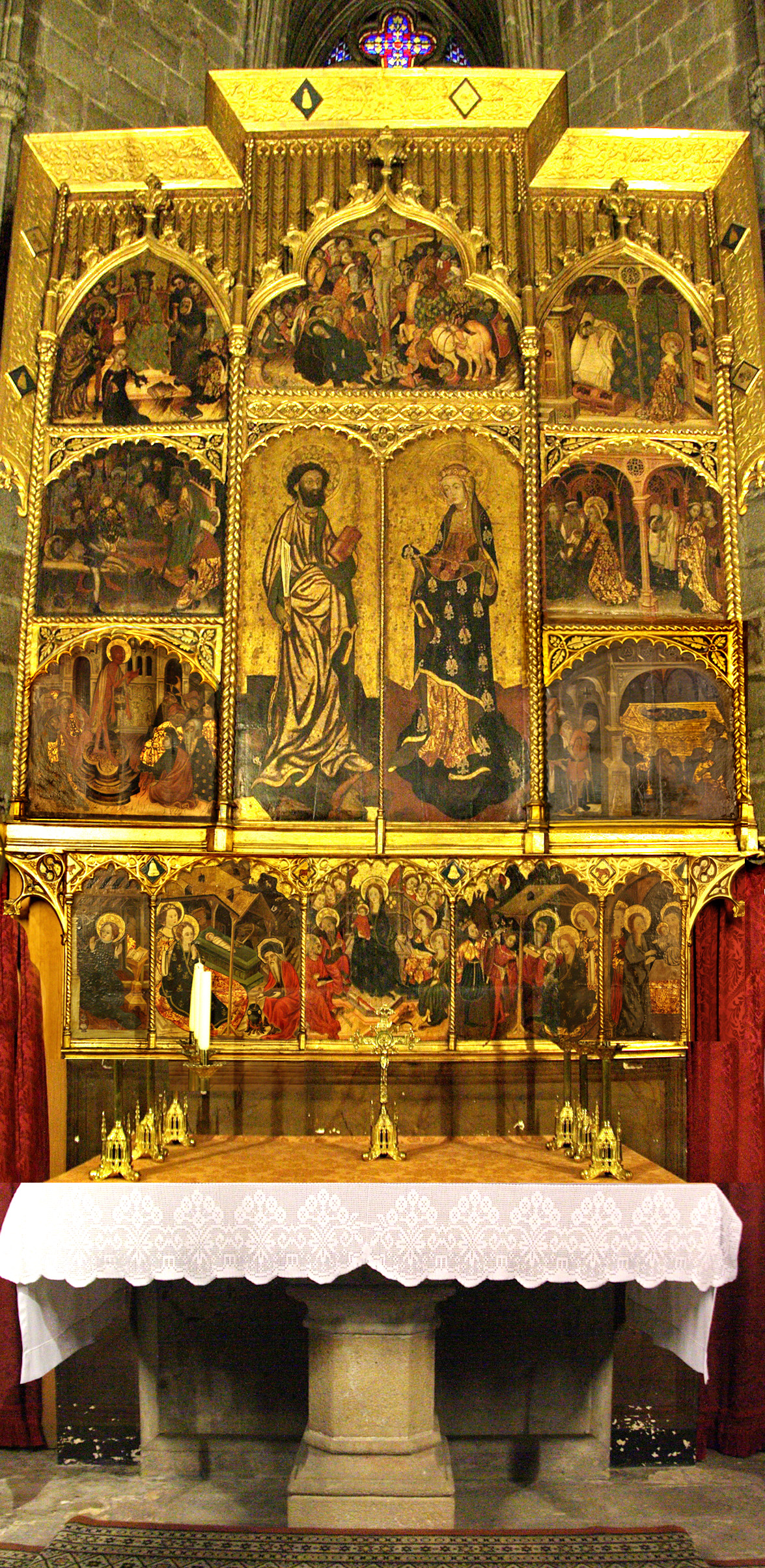 Altarpiece of Santa Isabel i Sant Bartomeu in cathedral of Barcelona. 1401 , Guerau Gener (1369–1408) Alternative namesGuerau GenerDescriptionCatalan painterDate of birth/deathcirca 1369between 1408 and 1411Location of birth/deathBarcelona (Catalonia)Barcelona (Catalonia)Work locationBarcelonaAuthority control : Q5843810 VIAF: 95908304 ULAN: 500036339 RKD: 30863